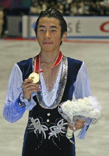 Nobunari Oda(JPN) at the 2008 NHK Trophy.